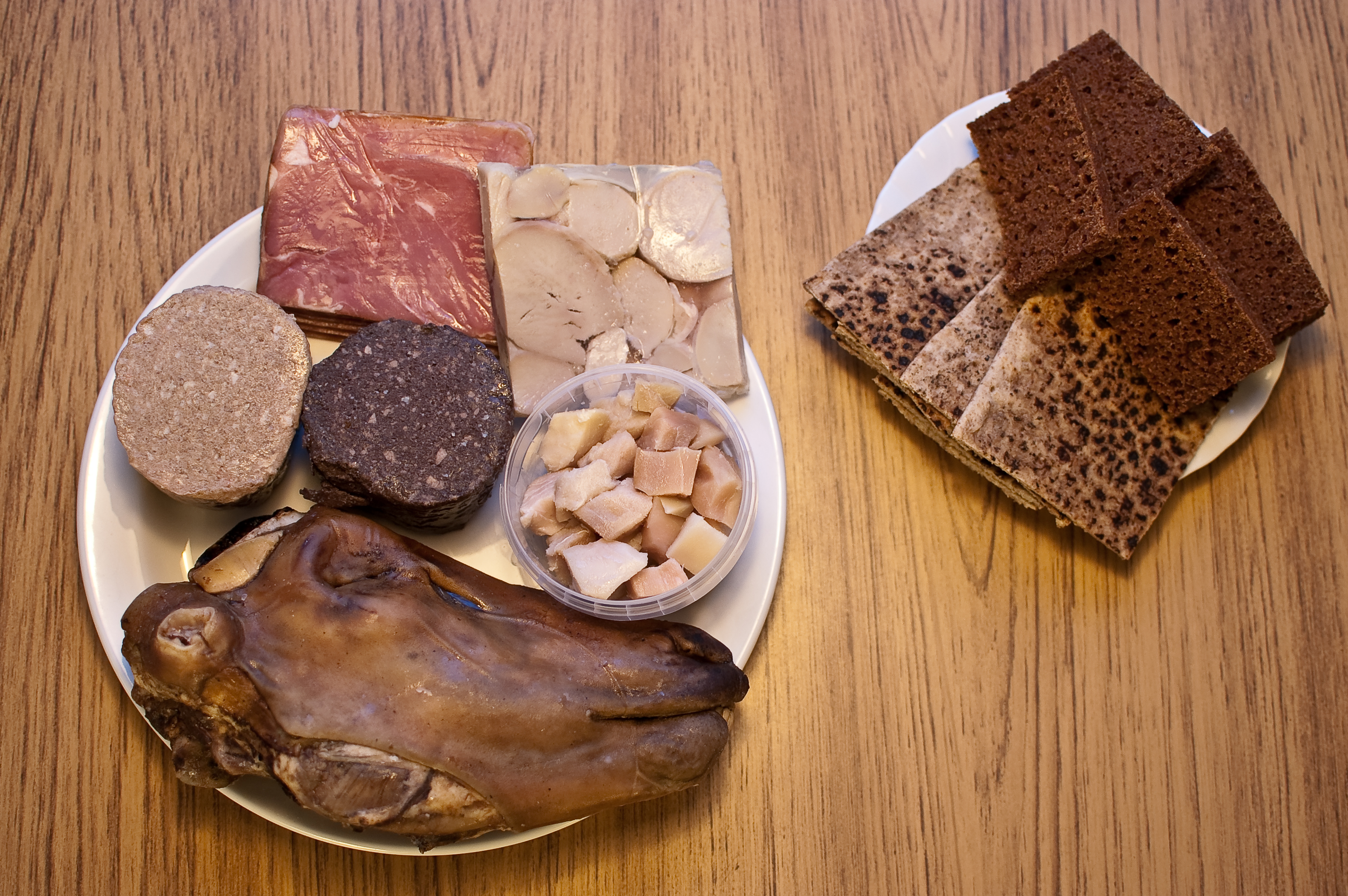 Some traditional Icelandic food (plate to the left: Hangikjöt, Hrútspungar, Lifrarpylsa, Blóðmör, Hákarl, Svið. plate to the right: Rúgbrauð, Flatbrauð)